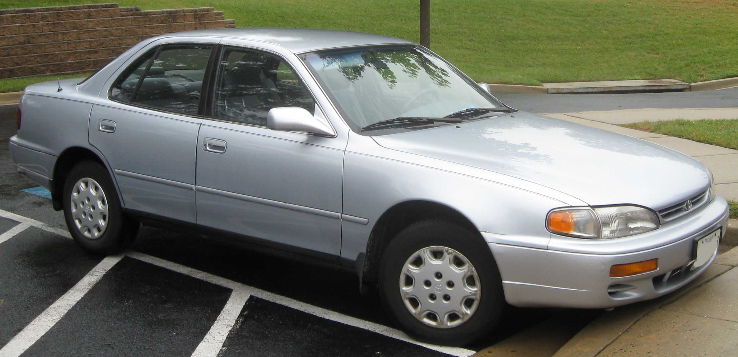 1995-1996 Toyota Camry photographed in Kensington, Maryland, USA.